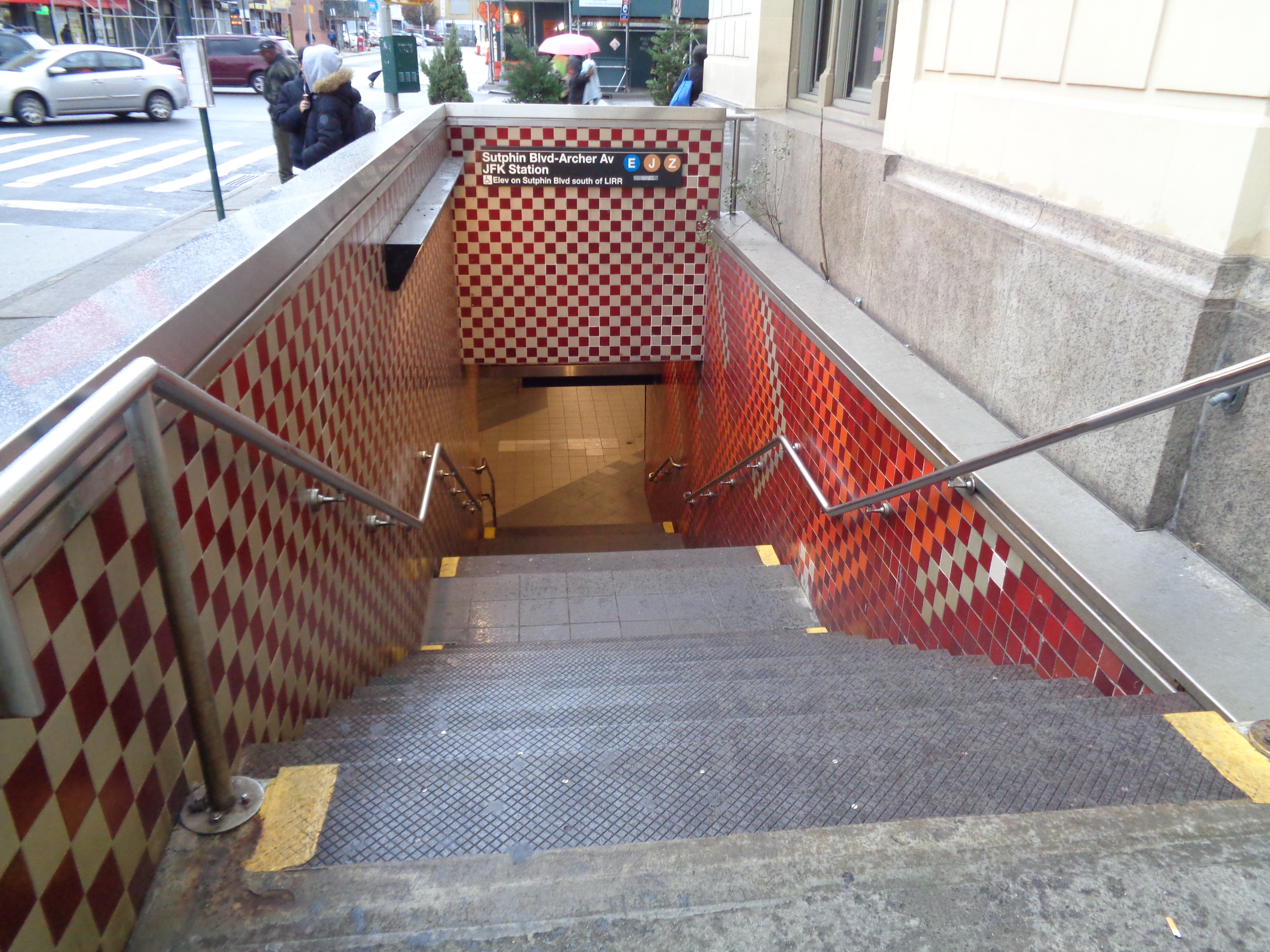 A 1980s-era entrance for the Sutphin Boulevard–Archer Avenue–JFK Airport subway station in front of the Jamaica LIRR station headhouse, at Sutphin Boulevard and Archer Avenue in Jamaica, Queens.